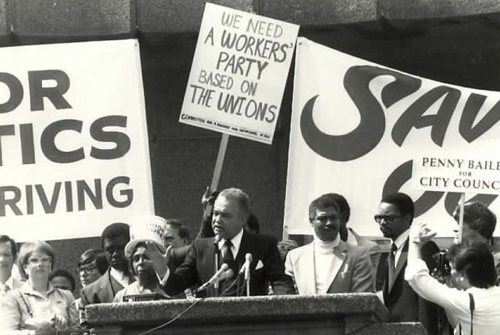 photo by Einar Einarsson Kvaran aka Carptrash 03:46, 18 June 2006 (UTC) Coleman Young mayor of Detroit, MI